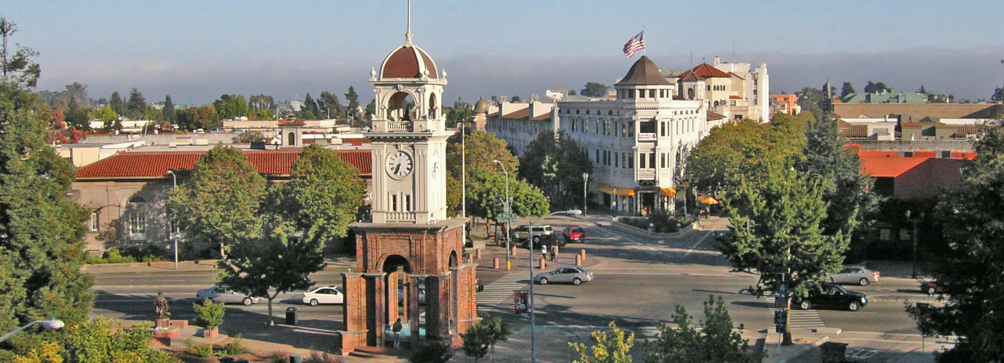 Downtown Santa Cruz, California from Mission Hill